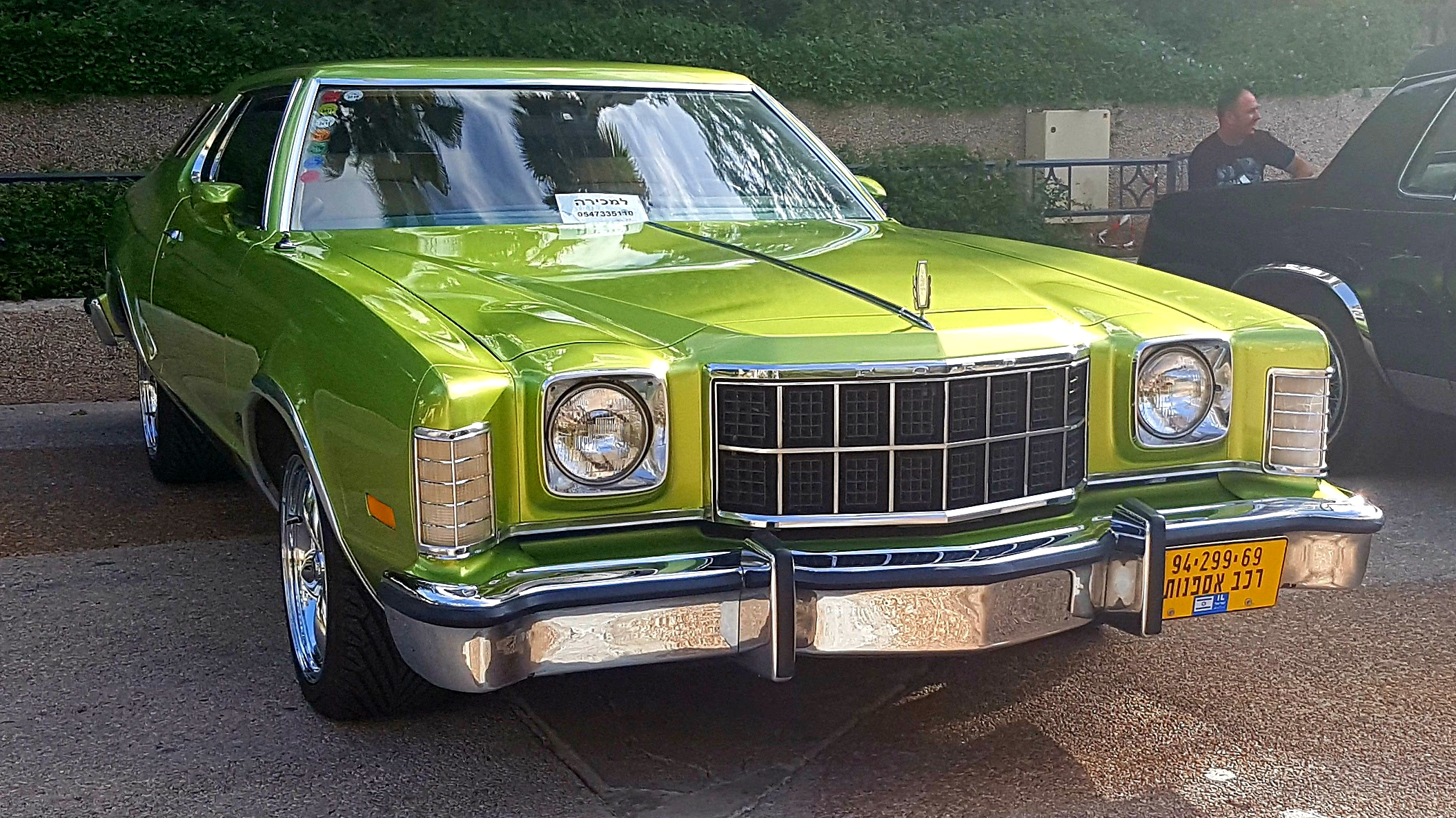 מועדון החמש בנס ציונה